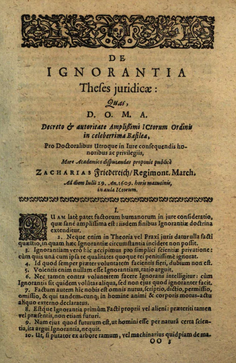 If you can, help make this description accessible to all by translating it into other languages – thanks!